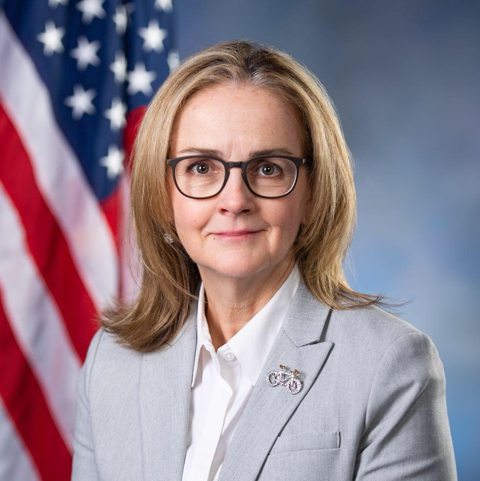 The official headshot of Rep. Madeleine Dean (D-PA)